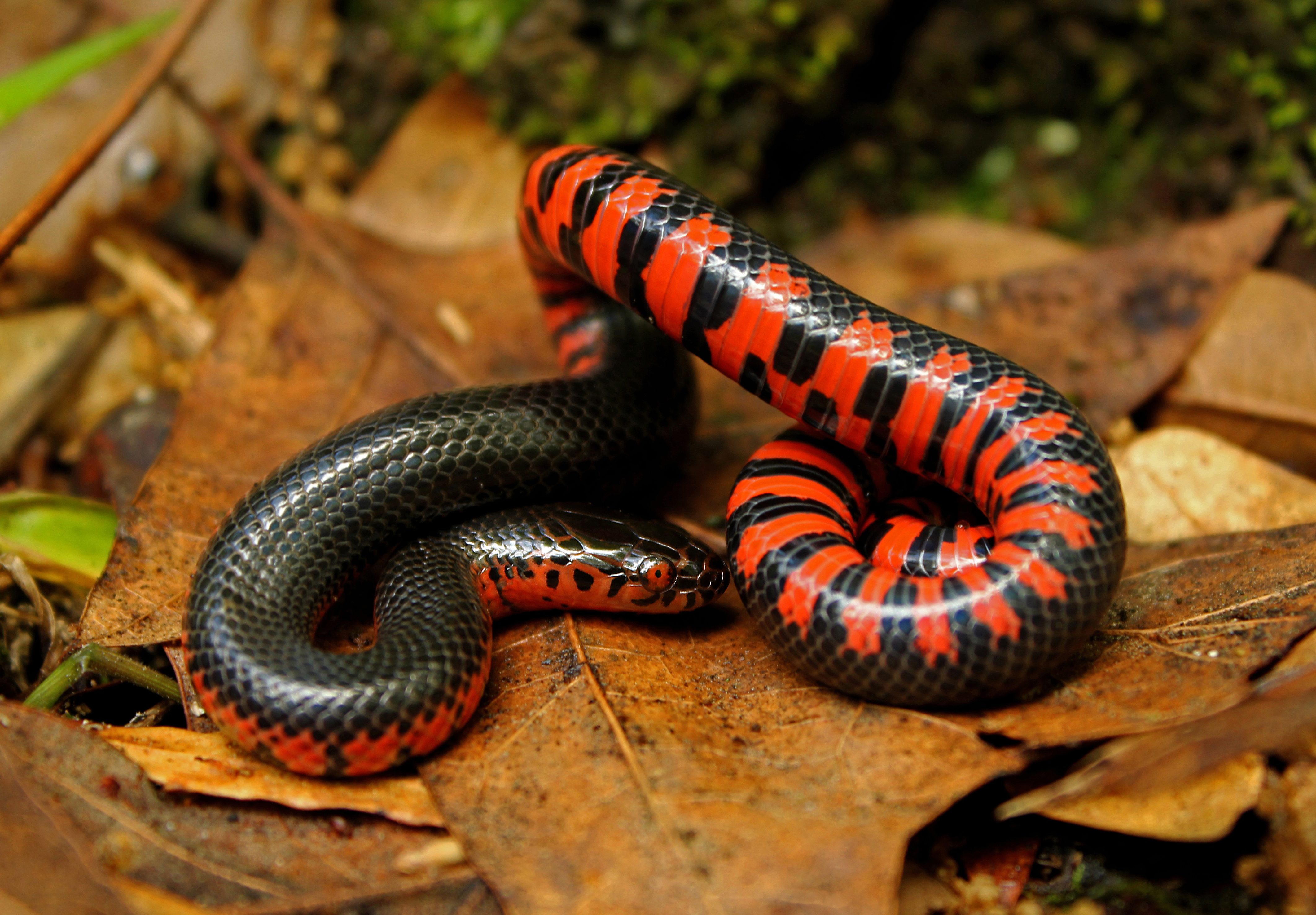 April 17th, 2015 High of 78 degrees Fahrenheit White County, Arkansas